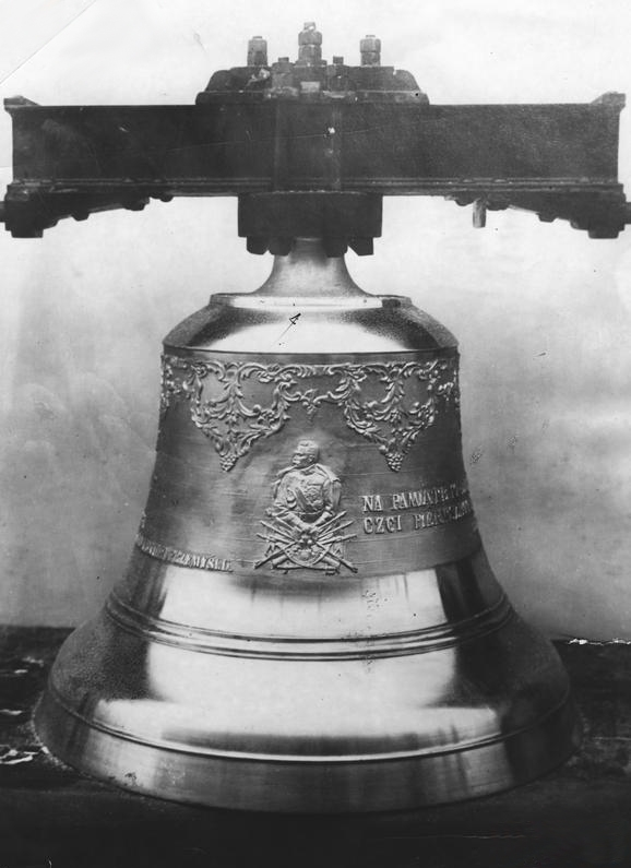 Józef Piłsudski's bell in Noworodczyce, Poland.